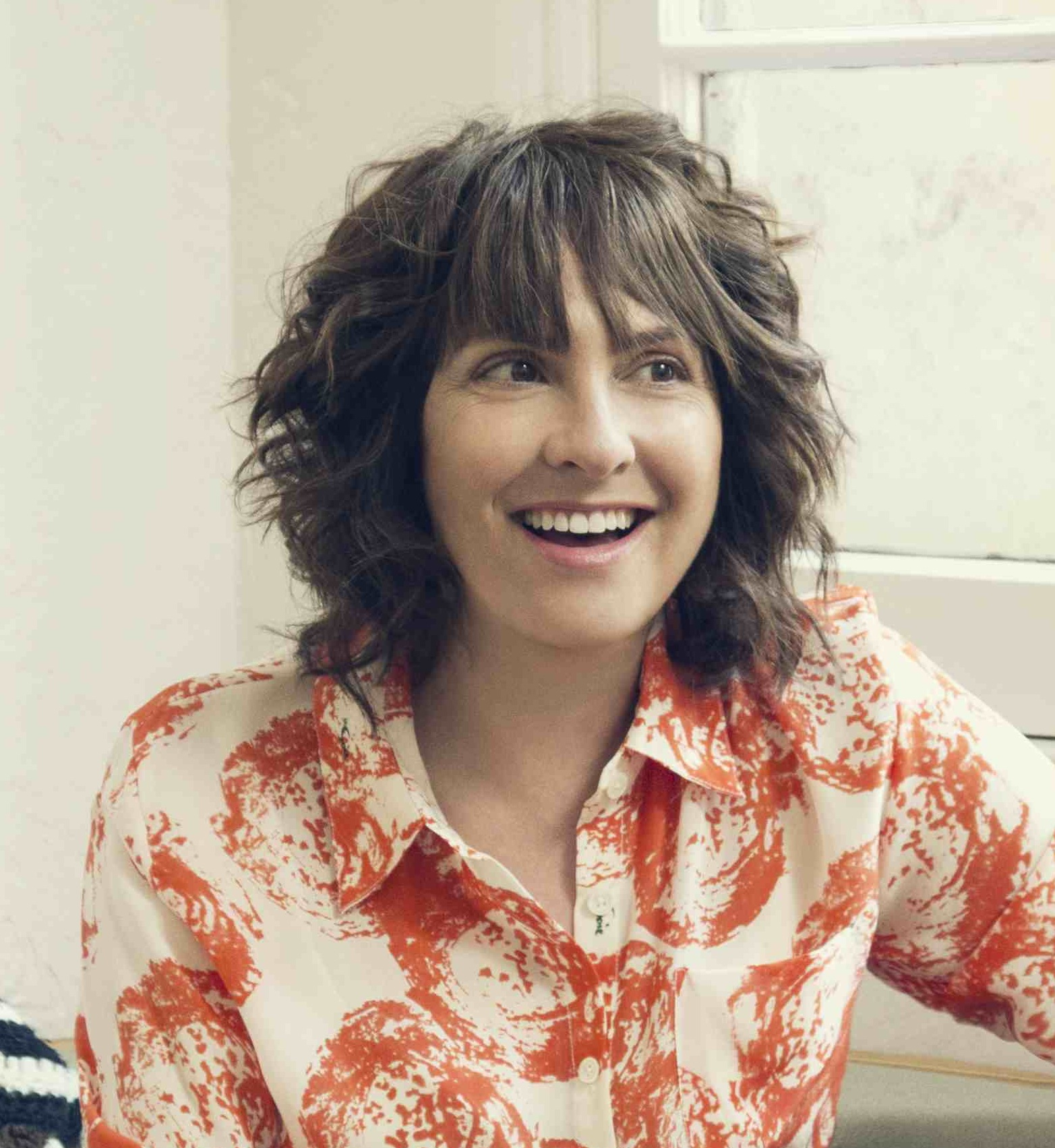 Photo of Joey Soloway, director/writer/feminist